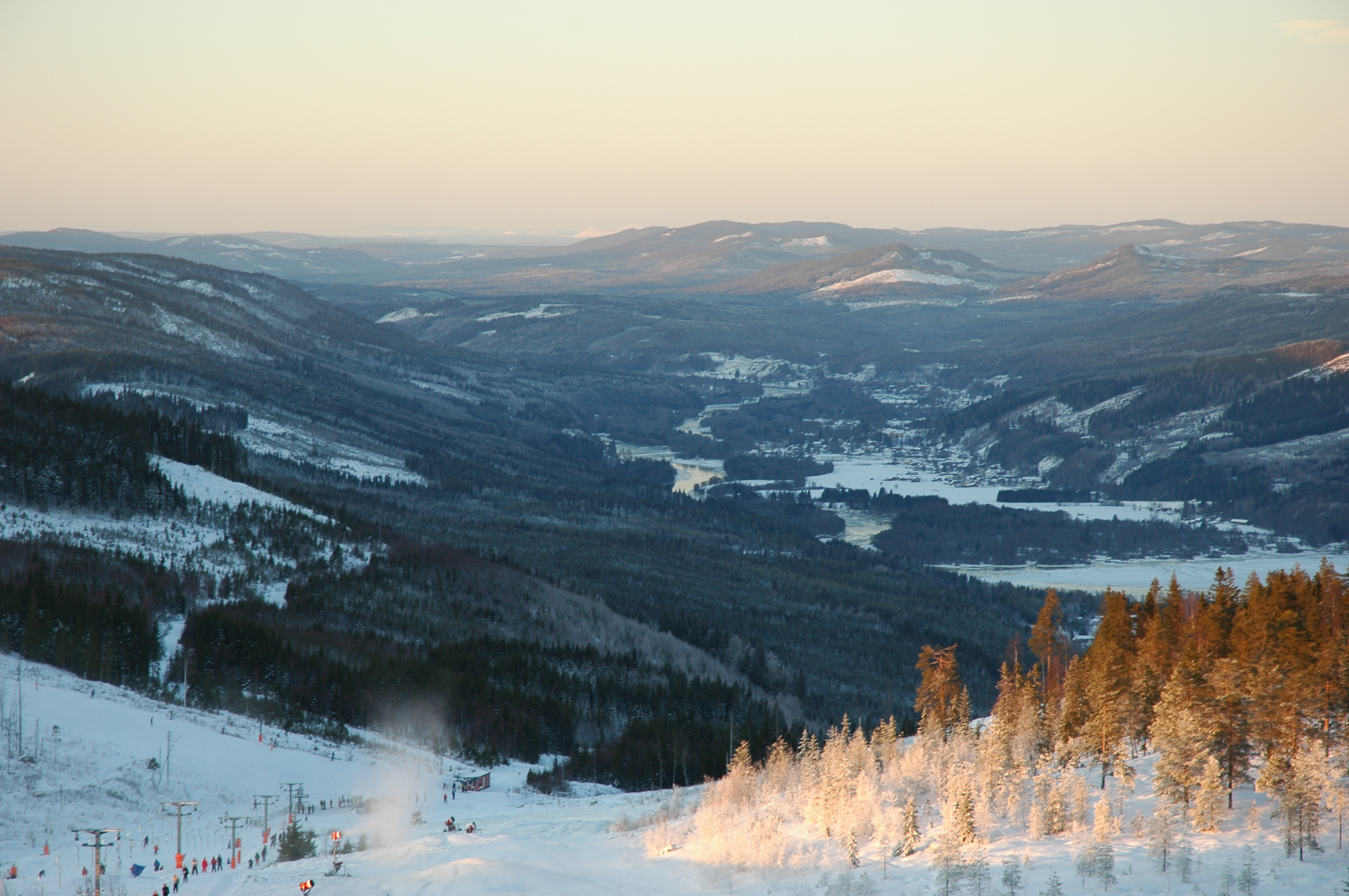 View from the top of Branäs in winter